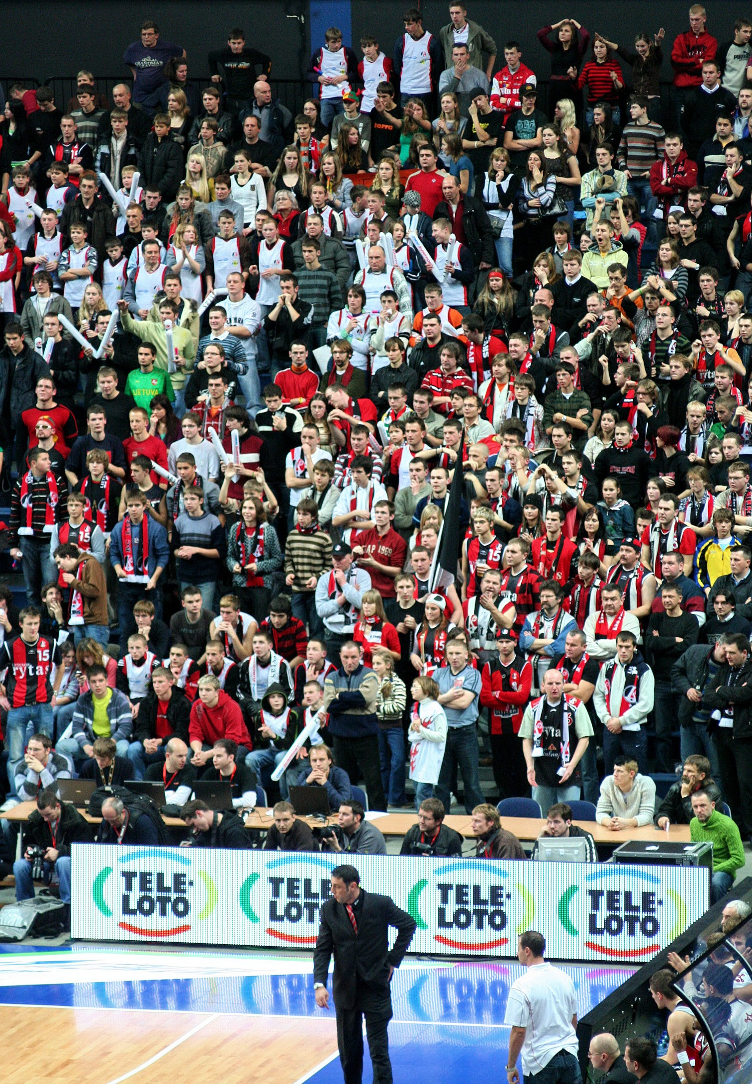 Head coach Aleksandar Trifunovic set against the crowd of BC Lietuvos Rytas fans